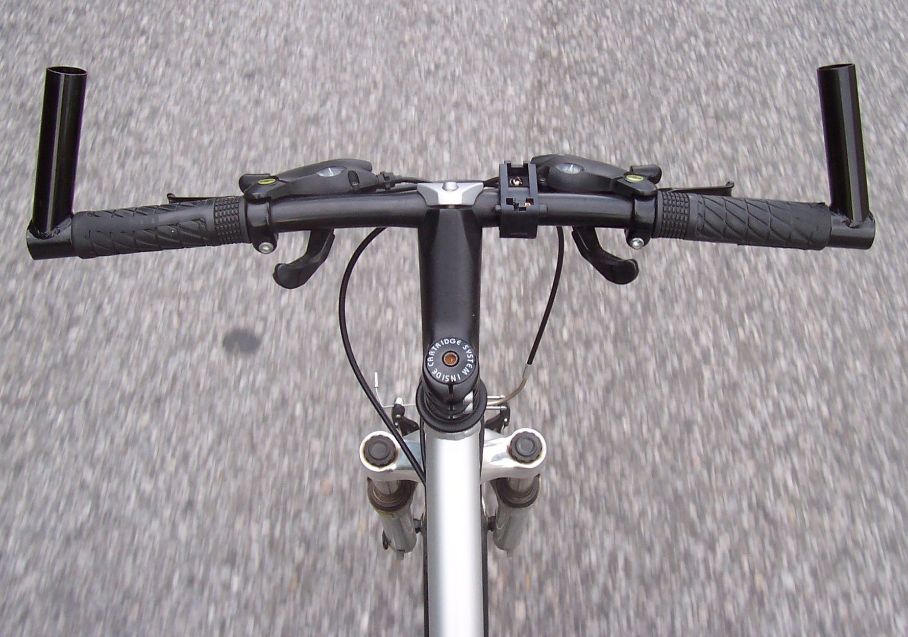 handle bar of a montainbike